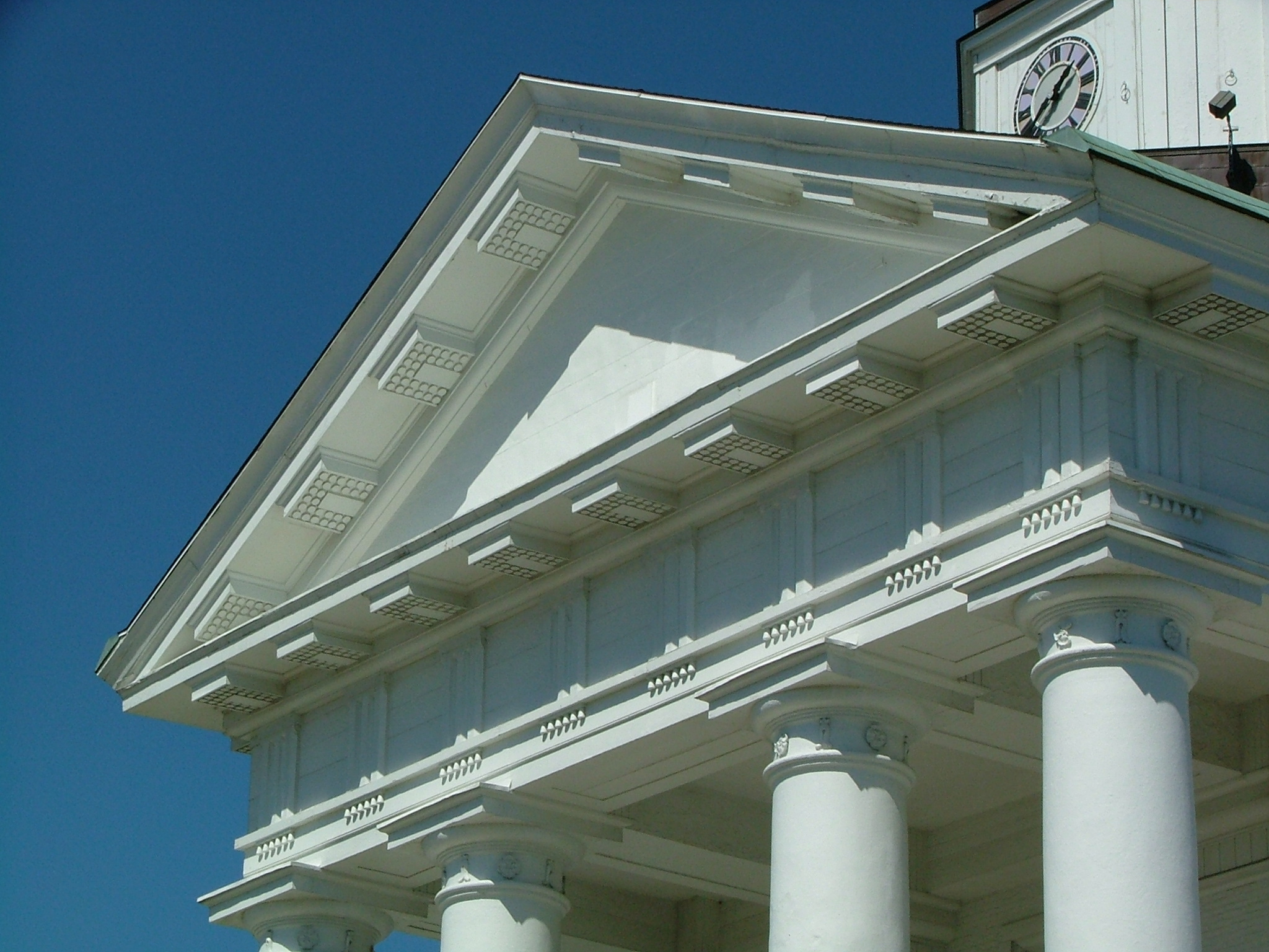 Detail of the south pediment of Madison County Courthouse, Richmond, Kentucky (USA).